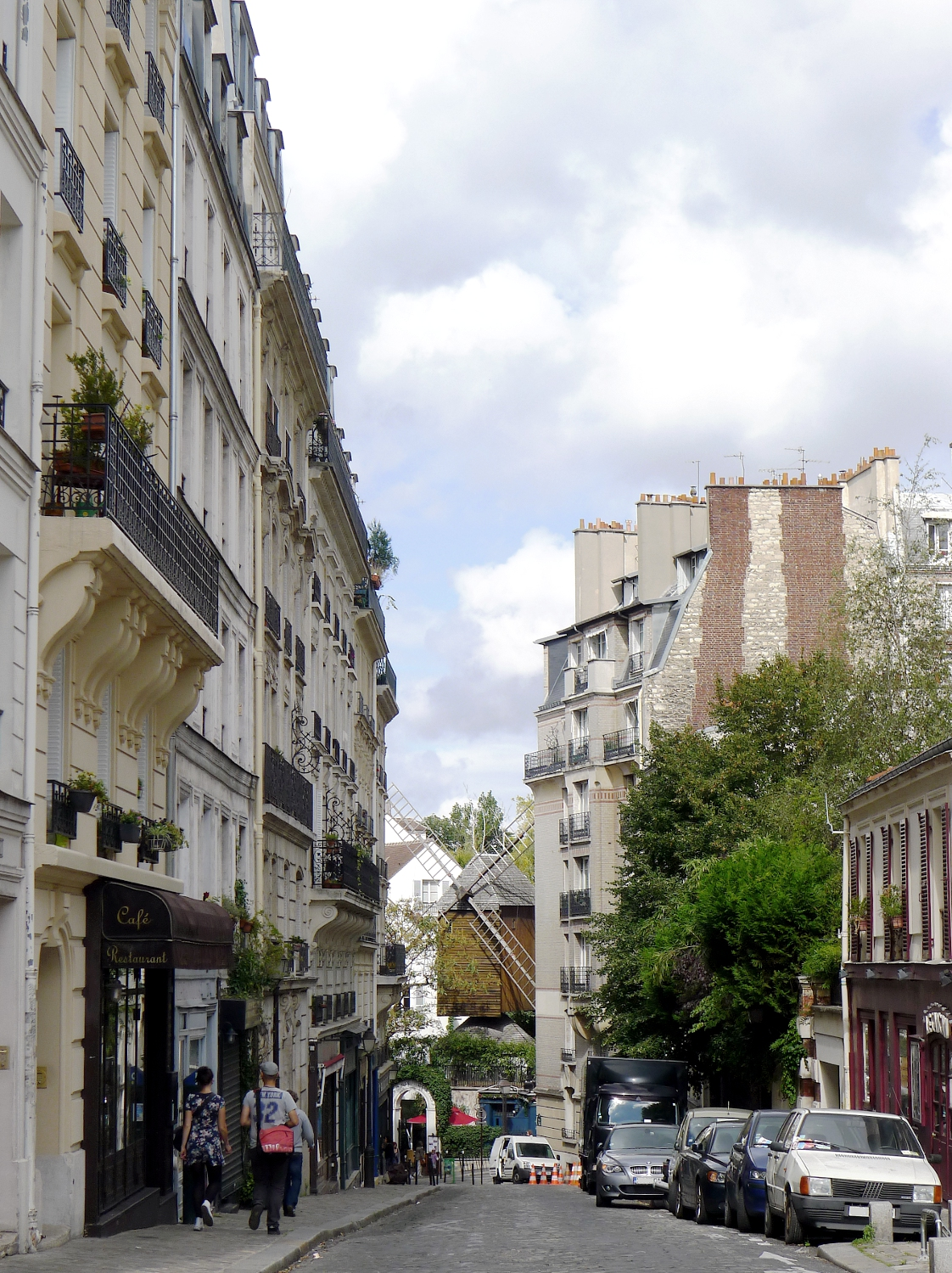 Lepic street - Paris